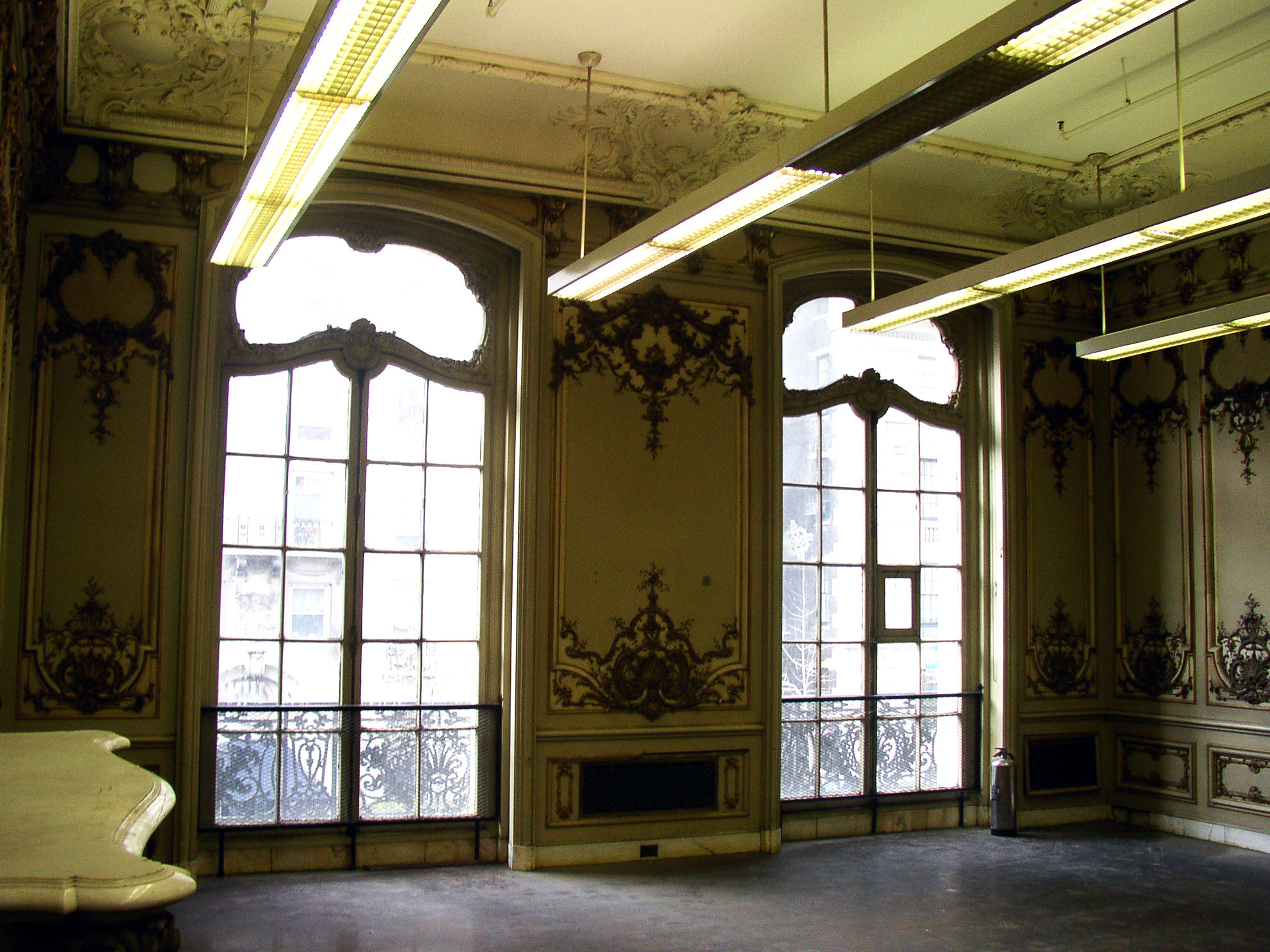 Oliver Gould Jennings House